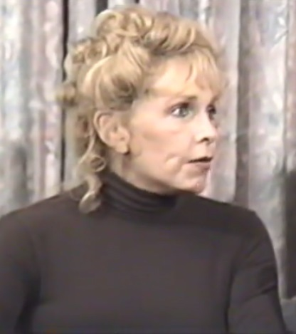 American actress Stella Stevens interviewed by Mark J. Gross for Count Gore De Vol.